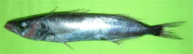 Neoepinnula orientalis collected off Pakistan